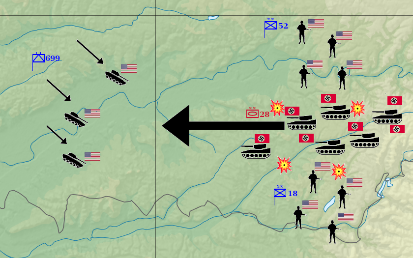 Image depicting simple US Tank Destroyer tactics in World War II. The 28th Panzer Division has broken through the lines of the US 18th and 52nd infantry Divisions at Tarn in Southern France. The US 699th Tank Destroyer Battalion races to intercept them and delay their advance. This is a fictional, speculative scenario with Divisions and Battalions that never existed in real life.